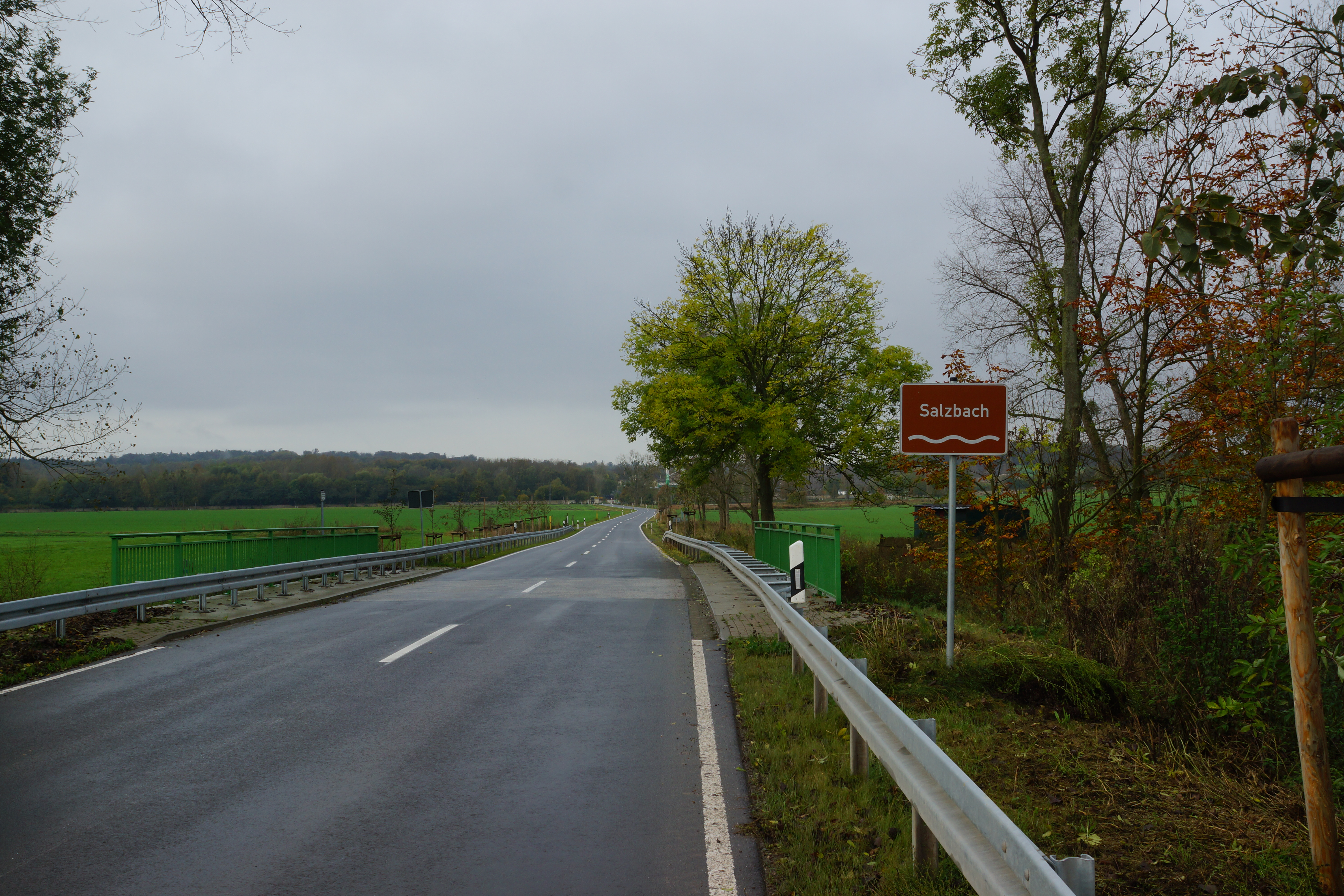 Erxleben (Bartensleben), Germany: Salzbach